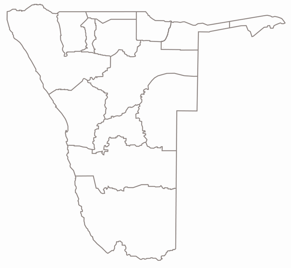 map of the 13 regions in Namibia